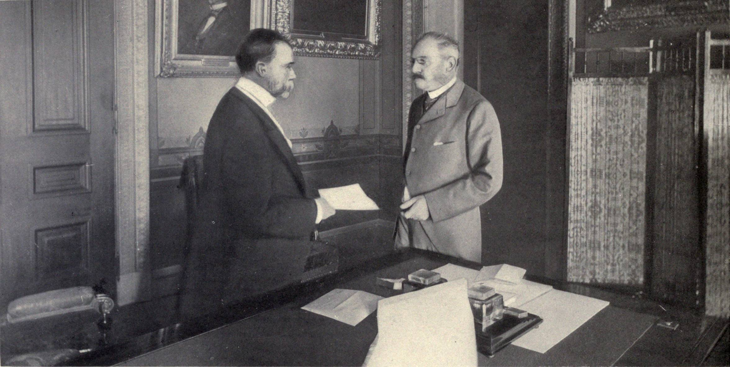 John Hay, US Secretary of State, handing to Jules Cambon, the French Ambassador, the $20,000,000 due to Spain under the Treaty of Peace, at the State Department, from p. 434 of Harper's Pictorial History of the War with Spain, Vol. II, published by Harper and Brothers in 1899.